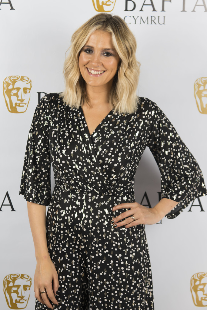 Picture of Elin Fflur; at the BAFTA Cymru Awards 2019